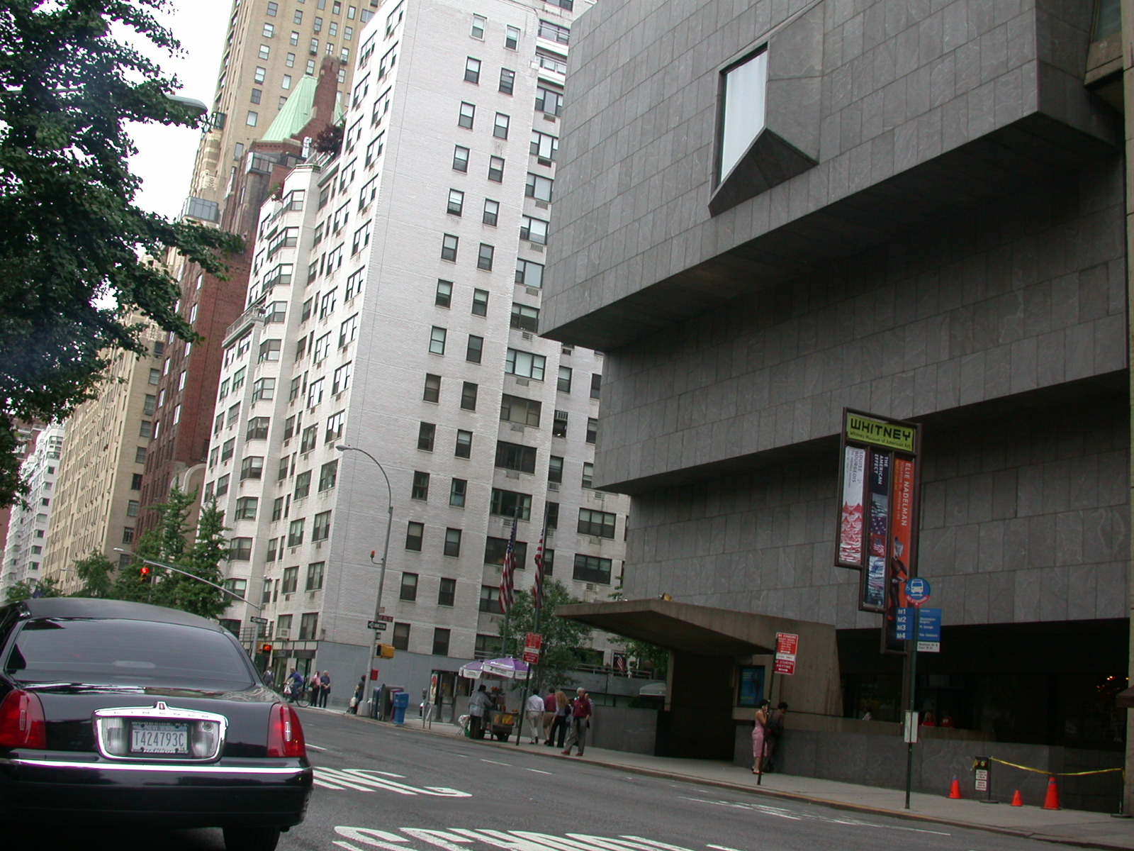 Whitney Museum, New York